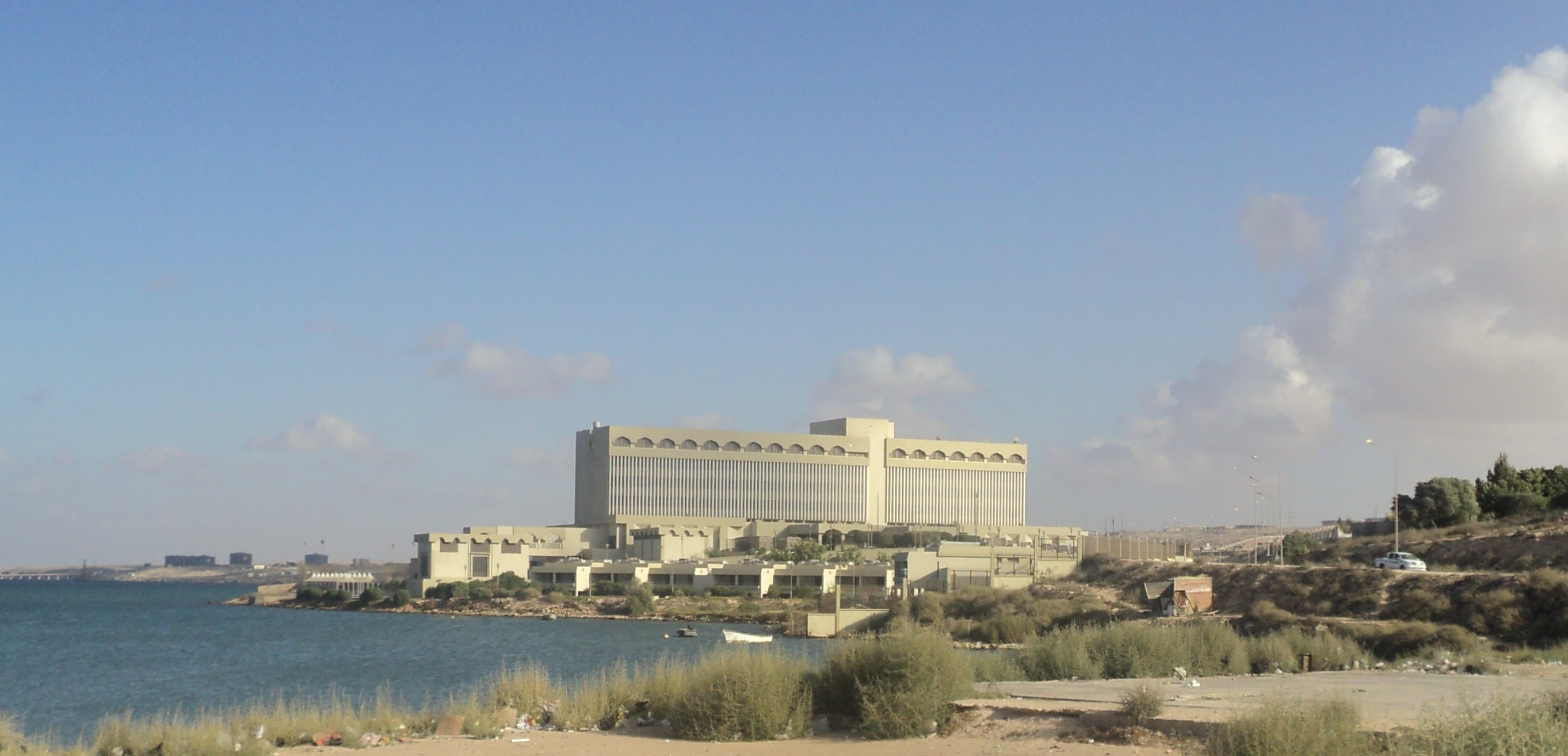 Al Masira (now Dar es-Salam) Hotel, Tobruk.